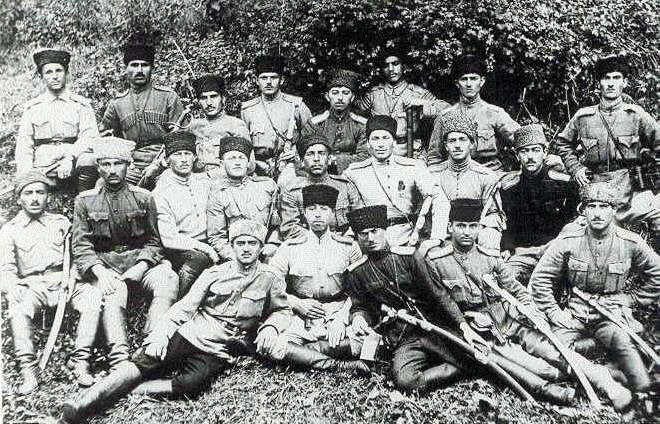 Officers of Azerbaijan Democratic republic's Army